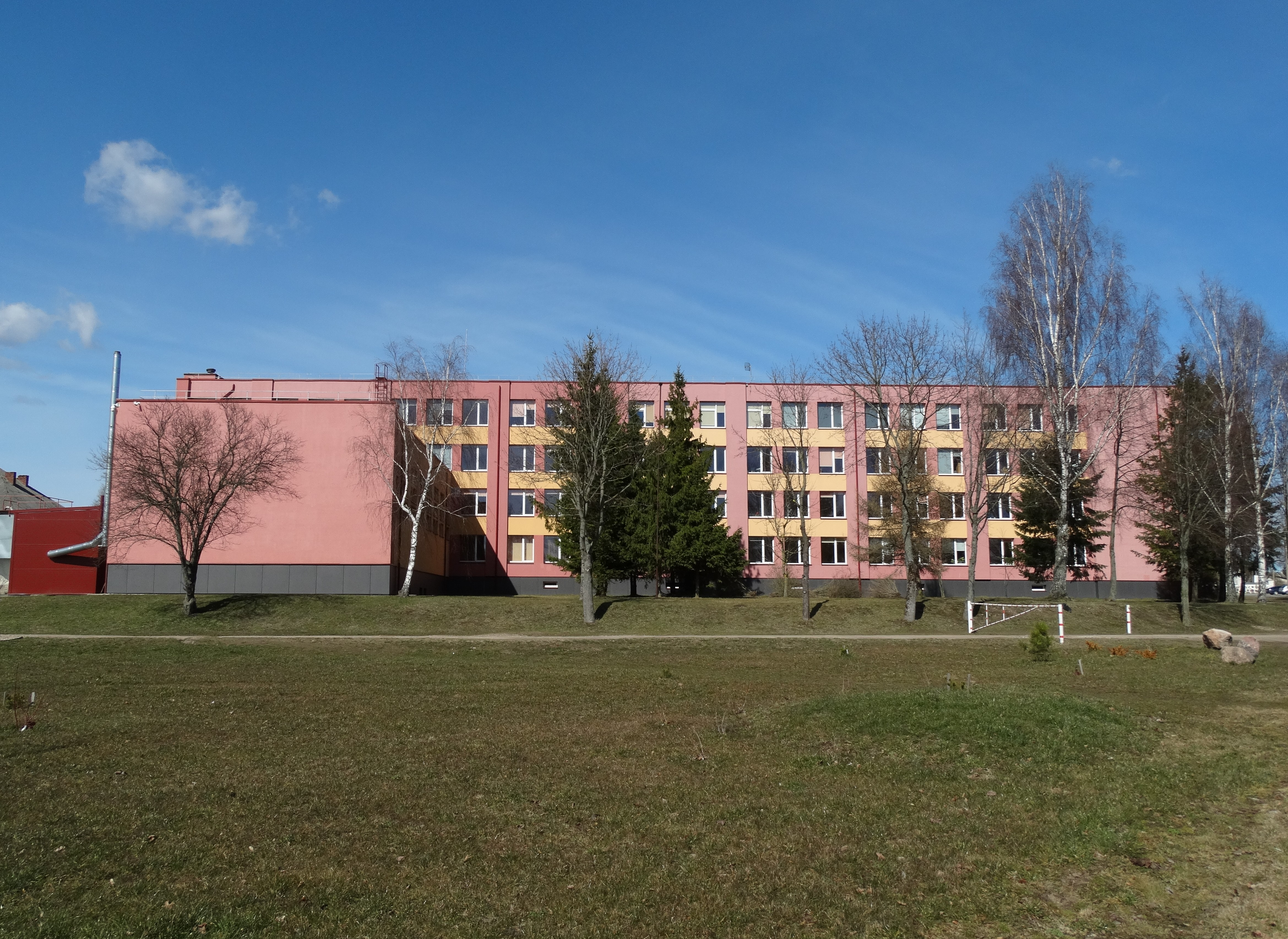 Šėta Gymnasium, Kėdainiai district, Lithuania